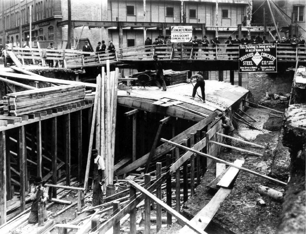 "Making a tunnel under Albert Street for Eaton's". This was the first public pedestrian tunnel constructed in Toronto, linking the Eaton's department store with the Eaton's Annex building at the corner of Albert and James Streets. The same tunnel (refurbished over the years) is still in use as part of Toronto's PATH system, connected the Toronto Eaton Centre to the Bell Trinity office complex.